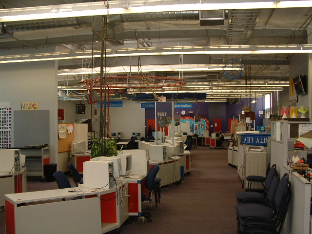 Inside of the Alameda Community Learning Center